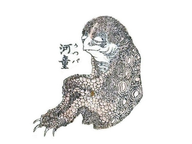 Detail of a bestiary drawing showing a kappa.